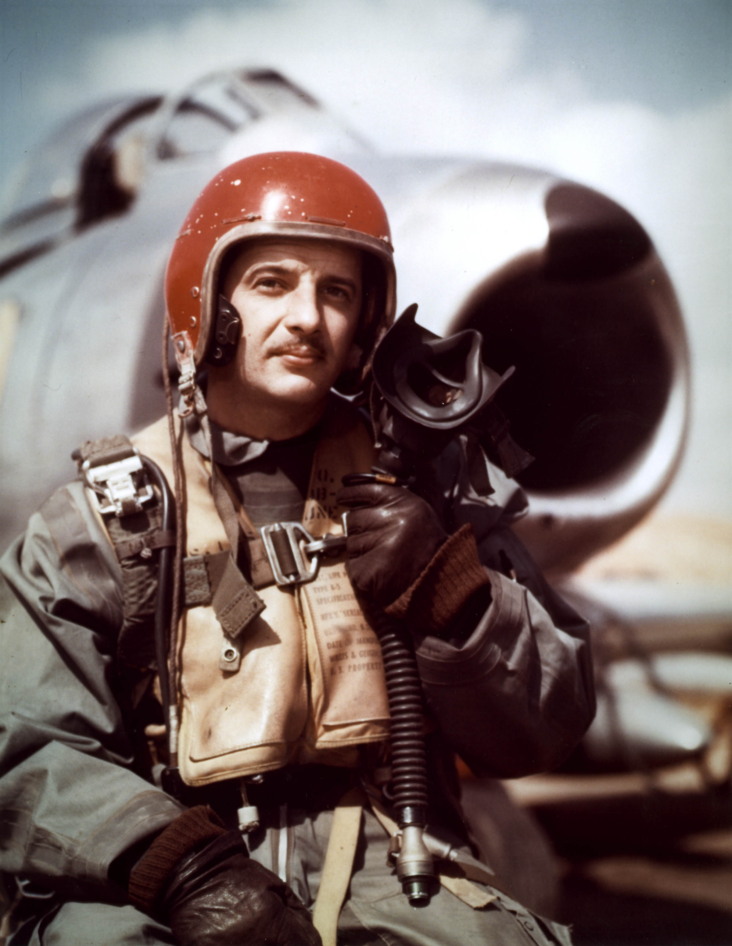 Capt. Manuel J. Fernandez Jr. of the 34th Fighter Intercepter Wing, became the 26th jet ace of the Korean War Feb. 18, 1953. U.S. Air Force Photo, #020925-O-9999G-007.JPG